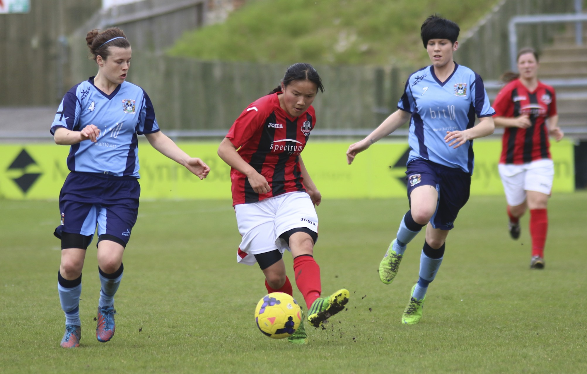 Lewes Ladies 1 Coventry City 1 27 Apr 2014